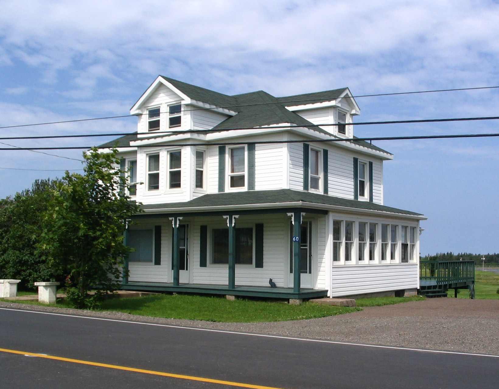 An old house of Cap-Pelé, New Brunswick. The image have been cropped to remove a car.